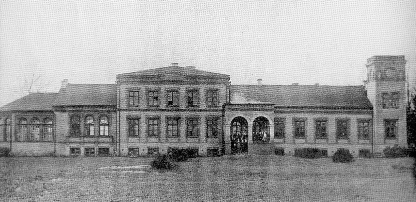 Taali parish